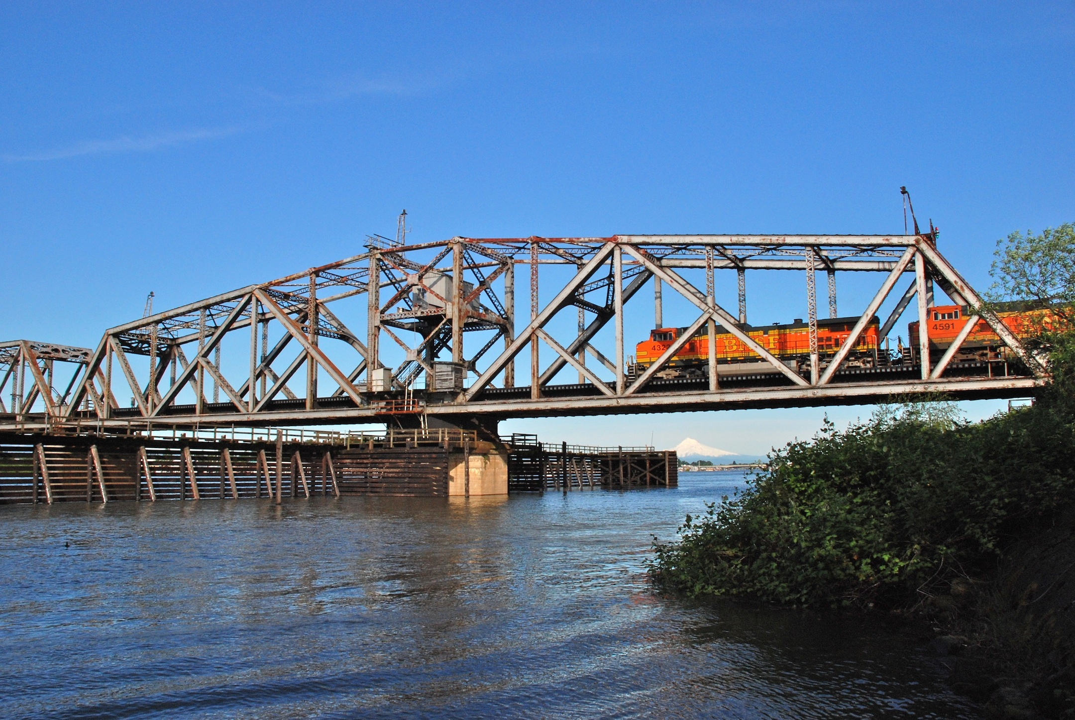 The Oregon Slough Railroad Bridge, also known as BNSF Railway Bridge 8.8, is a 1908 swing-span bridge across the Oregon Slough (or North Portland Harbor), on the south side of Hayden Island, in Portland, Oregon. This view from the south shore shows a northbound BNSF freight train starting to cross the bridge (and passing through the swing-span section). Mount Hood, located 50 miles (83 km) away, is visible in the distance.